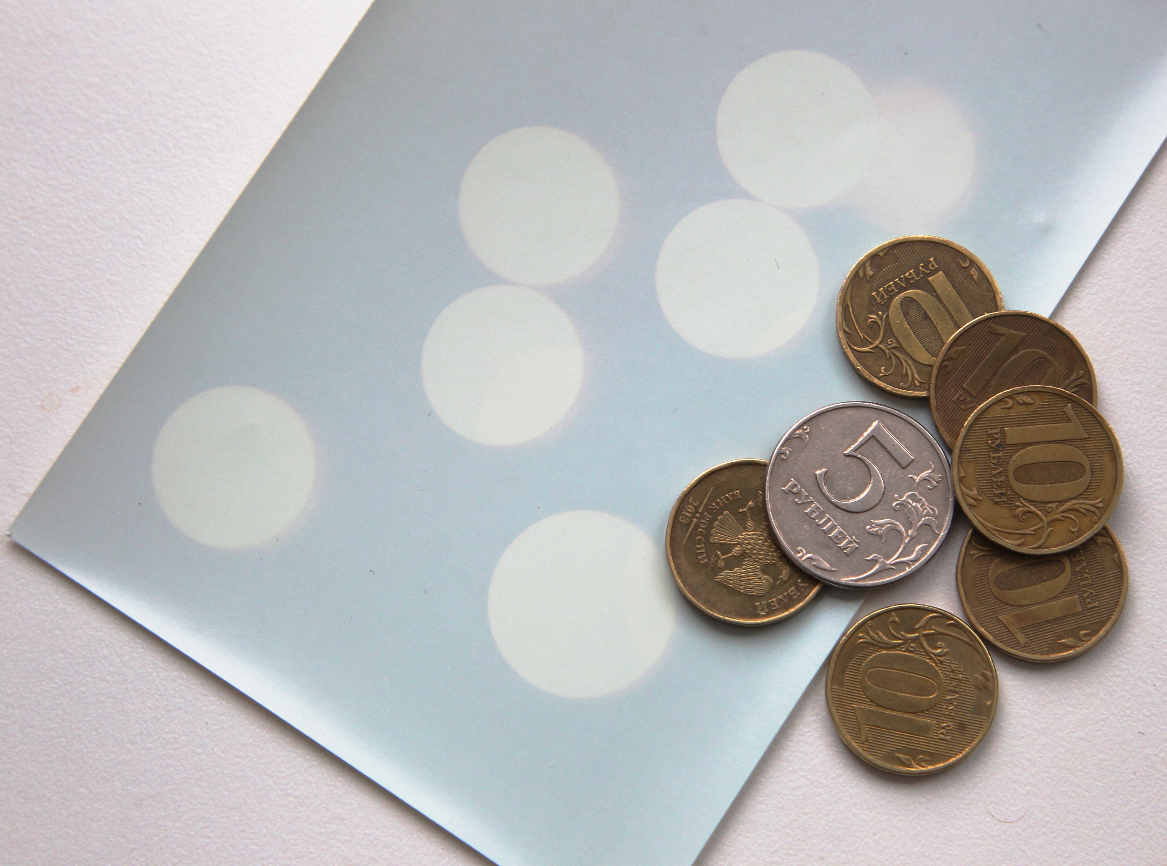 Photogram of coins at the sunlight exposed sheet of gelatin-silver photographic paper.